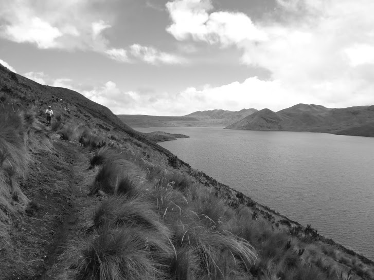 A black and white photo of a lake in the Andes Mountains - circa - Around two hours outside Quito